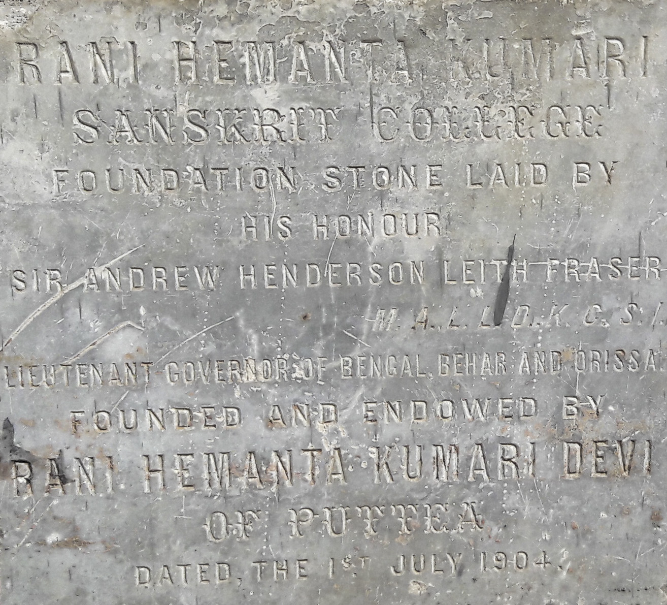 Varendra Museum is a museum, research center and popular visitor attraction located at the heart of Rajshahi town and maintained by Rajshahi University in Bangladesh. It is considered the oldest museum in Bangladesh.